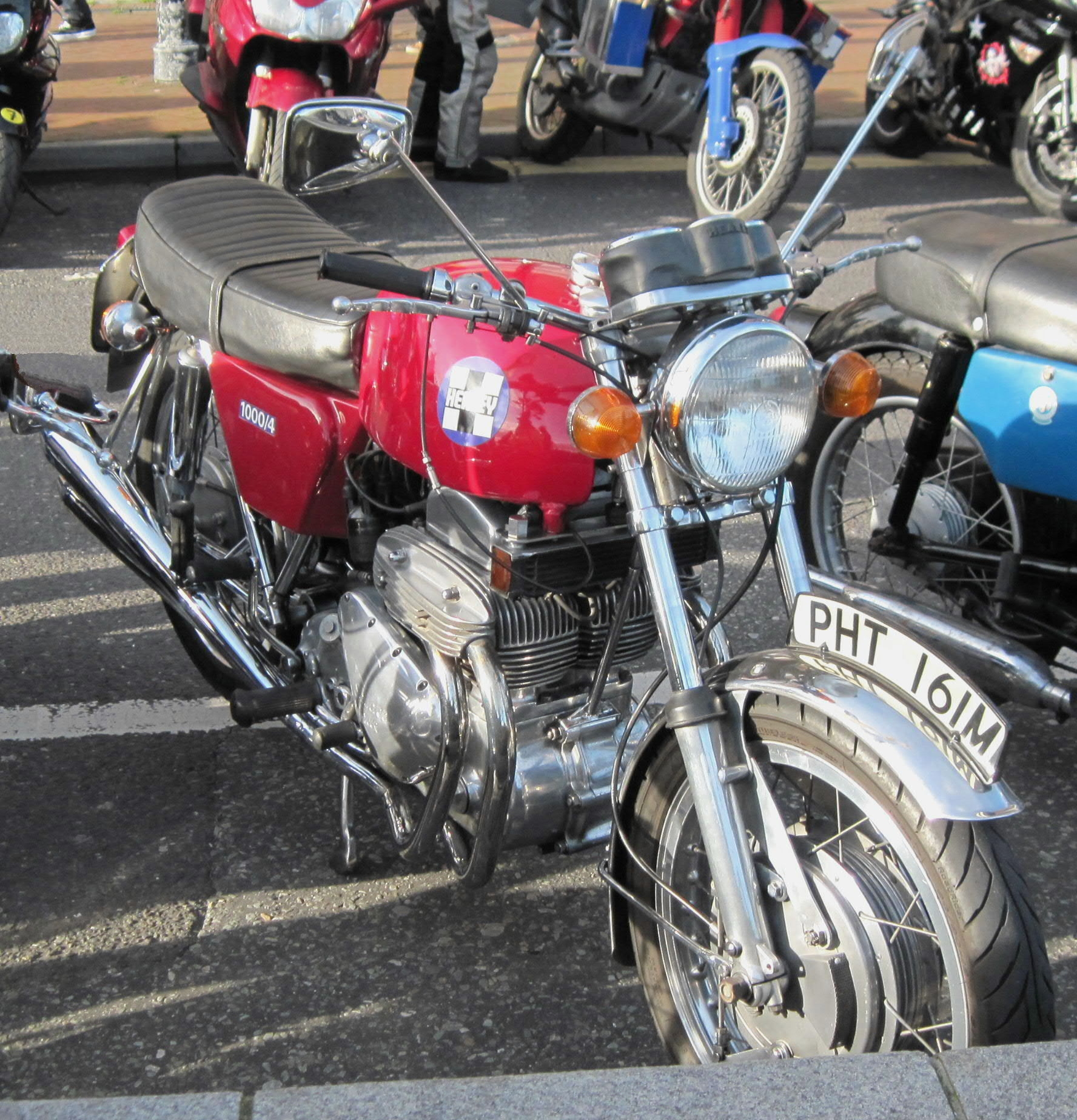 Healey 1000/4 British-made motorcycle fitted with an Ariel Square Four 1000 cc Engine at Poole Quay (Dorset, England) Bike Night